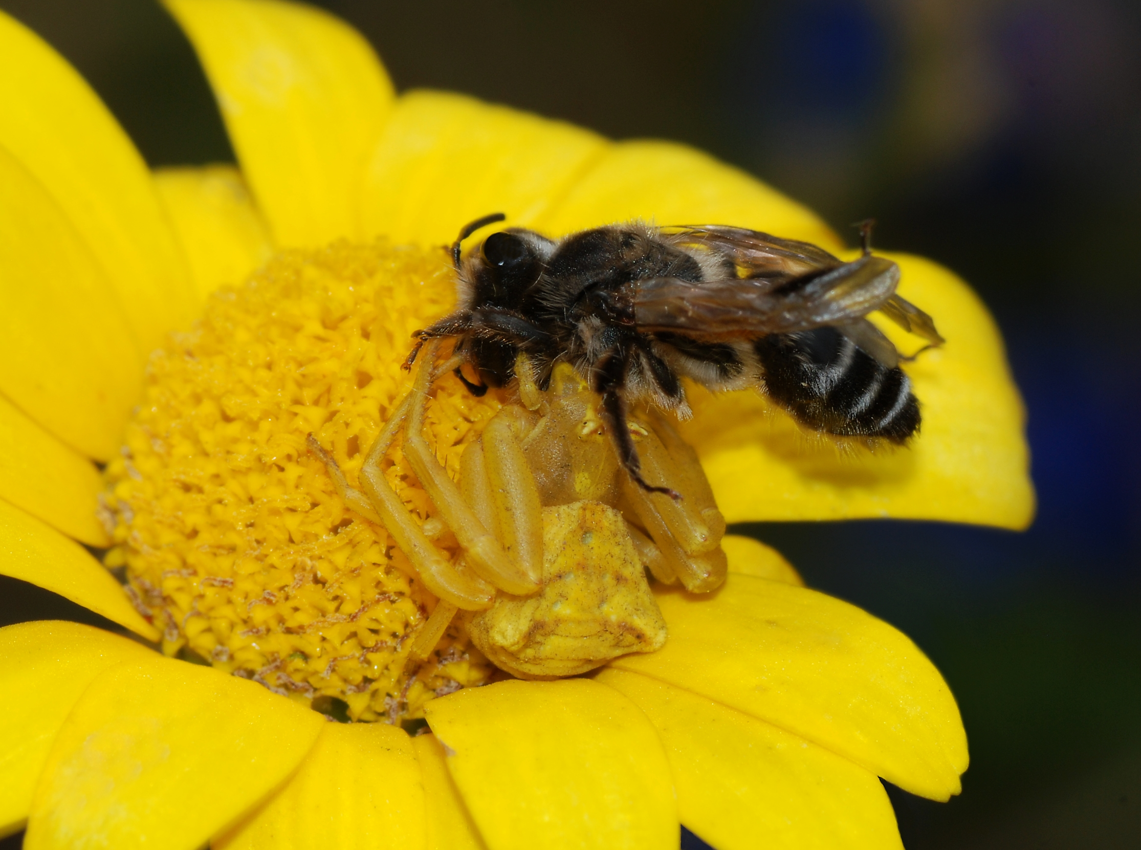 A female Crab Spider (Thomisus onustus) capturing a bee (cf. Andrena sp.). Spiders usually inject the poison at the back of the victim's head, where the nerves concentrate. Notice the perfect colour mimicry between the spider and the flower, a Yellow Chamomile (Anthemis tinctoria).